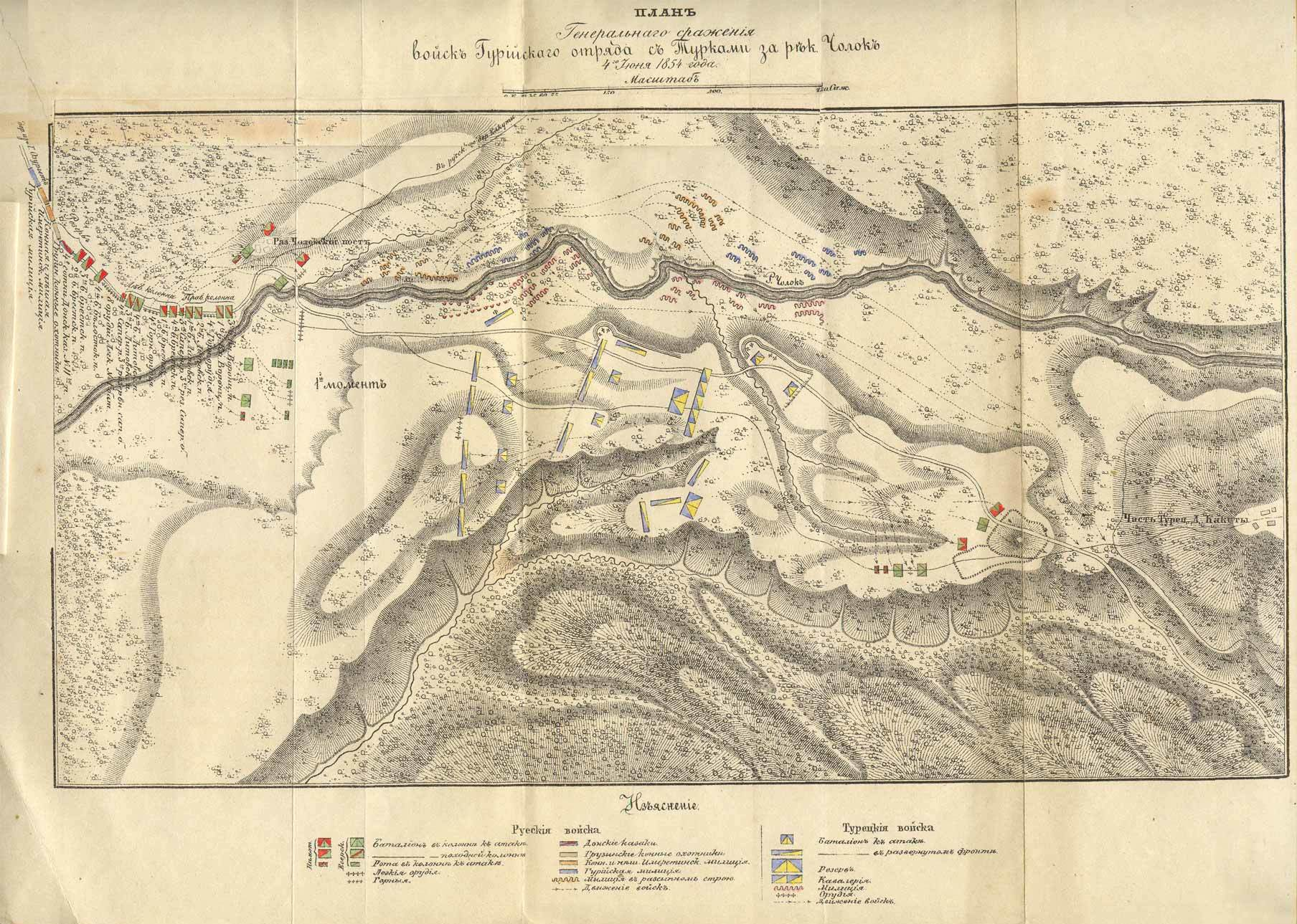 The plan of the battle at the Choloki river between the Russian and Turkish forces during the Easter War, 1853